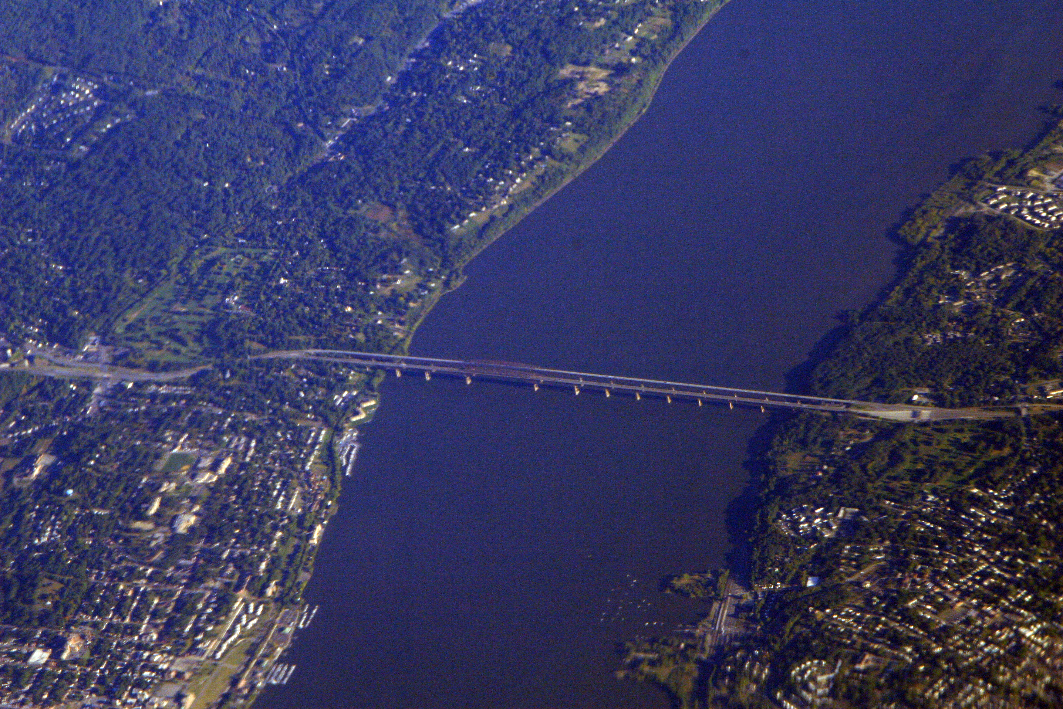 The Newburgh-Beacon Bridge over the Hudson River. Newburgh on the left, Beacon on the right. (Image taken on September 23rd, 2007)